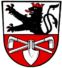 Coat of Arms of Thundorf in Unterfranken